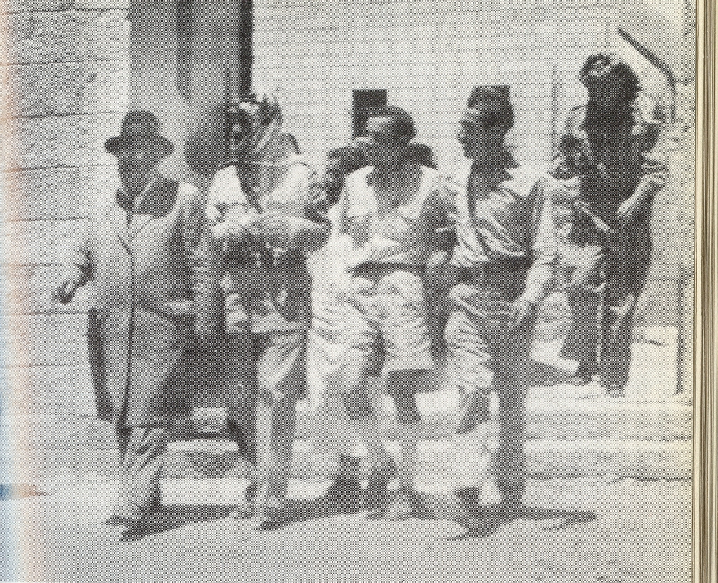 From left: Mordechai Weingarten (mukhtar of Jewish Quarter), Major Abdullah el Tell (local Arab Legion Commander). Pictured after the surrender of the Jewish Quarter, Jerusalem. 28 May 1948. The figure behind el Tell is Weingarten's daughter, Yehudit.